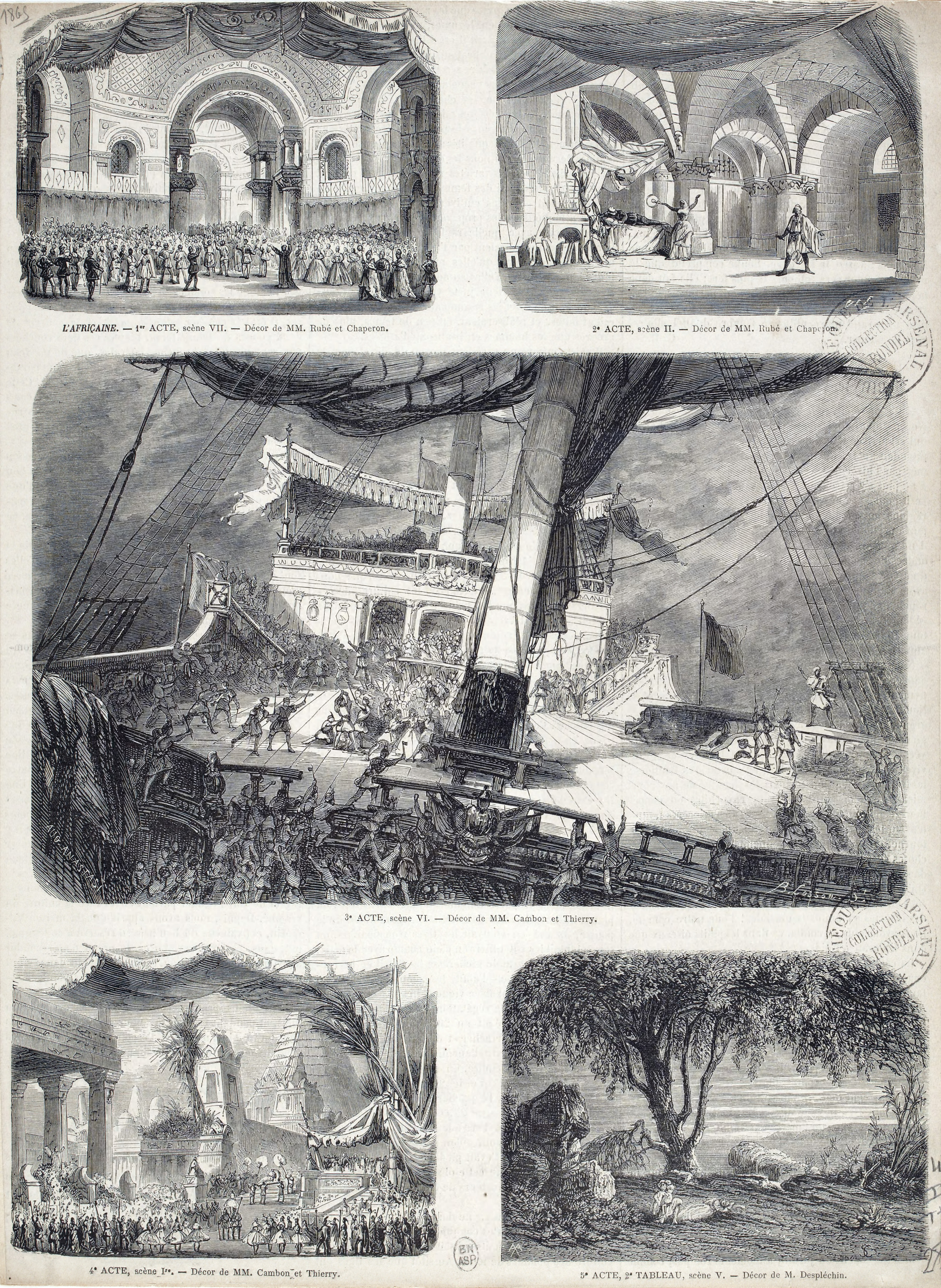 Settings for the 1865 premiere of Giacomo Meyerbeer's opera L'Africaine (press illustrations). The stage designs for Act I (Council Scene) and Act II (Dungeon Scene) were created by Auguste-Alfred Rubé and Philippe Chaperon; for Act III (Sea Scene and Shipwreck) and Act IV (Hindu Temple), by Charles-Antoine Cambon and Joseph-François-Désiré Thierry; for Scene 1 of Act V (Queen's Garden, not shown), by Jean Baptiste Lavastre; and for Scene 2 of Act V (The Machineel Tree), by Edouard-Désiré-Joseph Despléchin. (Ref: Letellier, Robert Ignatius (2008). An Introduction to the Dramatic Works of Giacomo Meyerbeer: Operas, Ballets, Cantatas, Plays, p. 174. Hampshire, England: Ashgate. ISBN 9780754660392.)